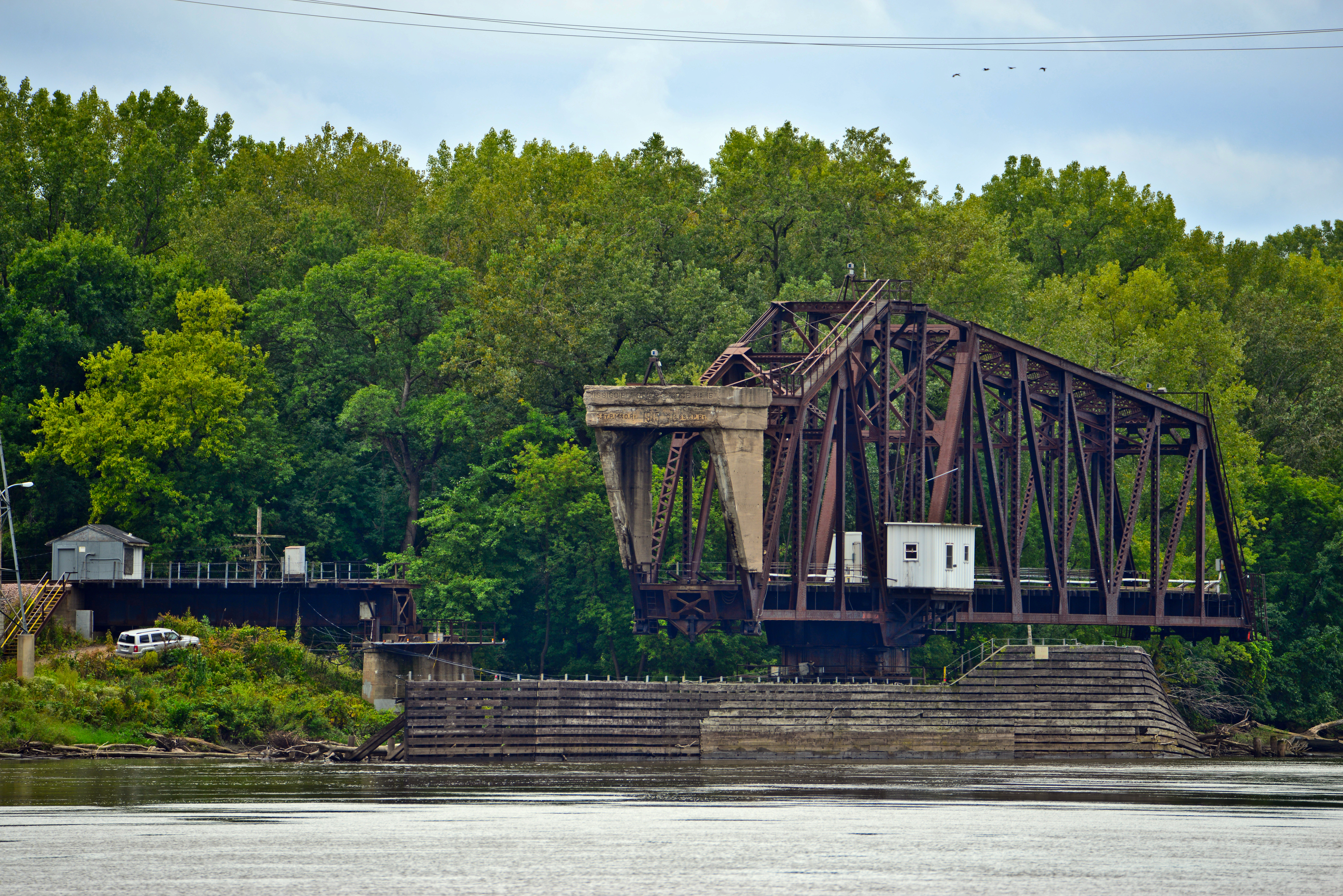 An unusually asymmetric swing bridge across the Misssissippi River at St. Paul.